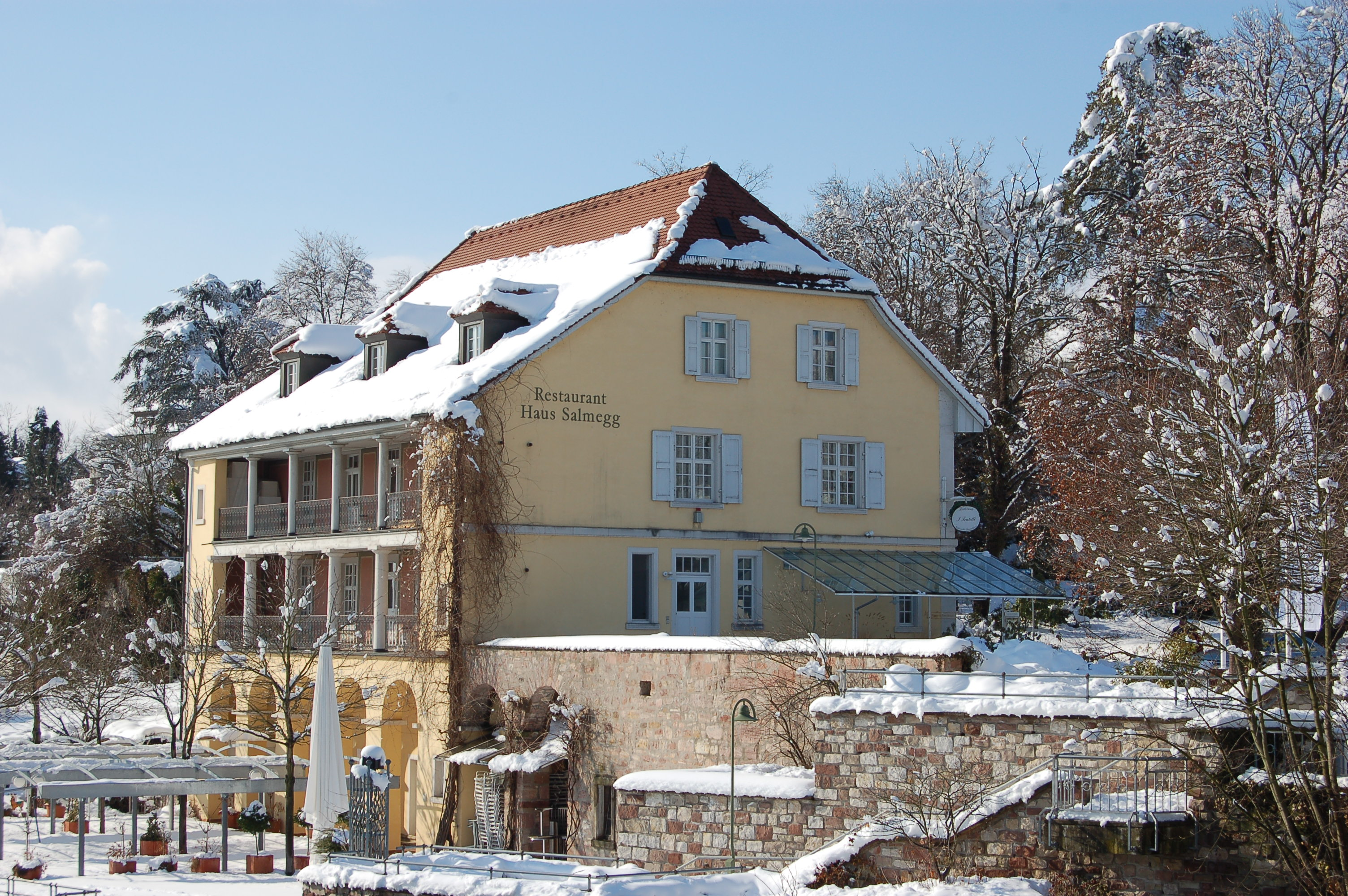 House "Salmegg"